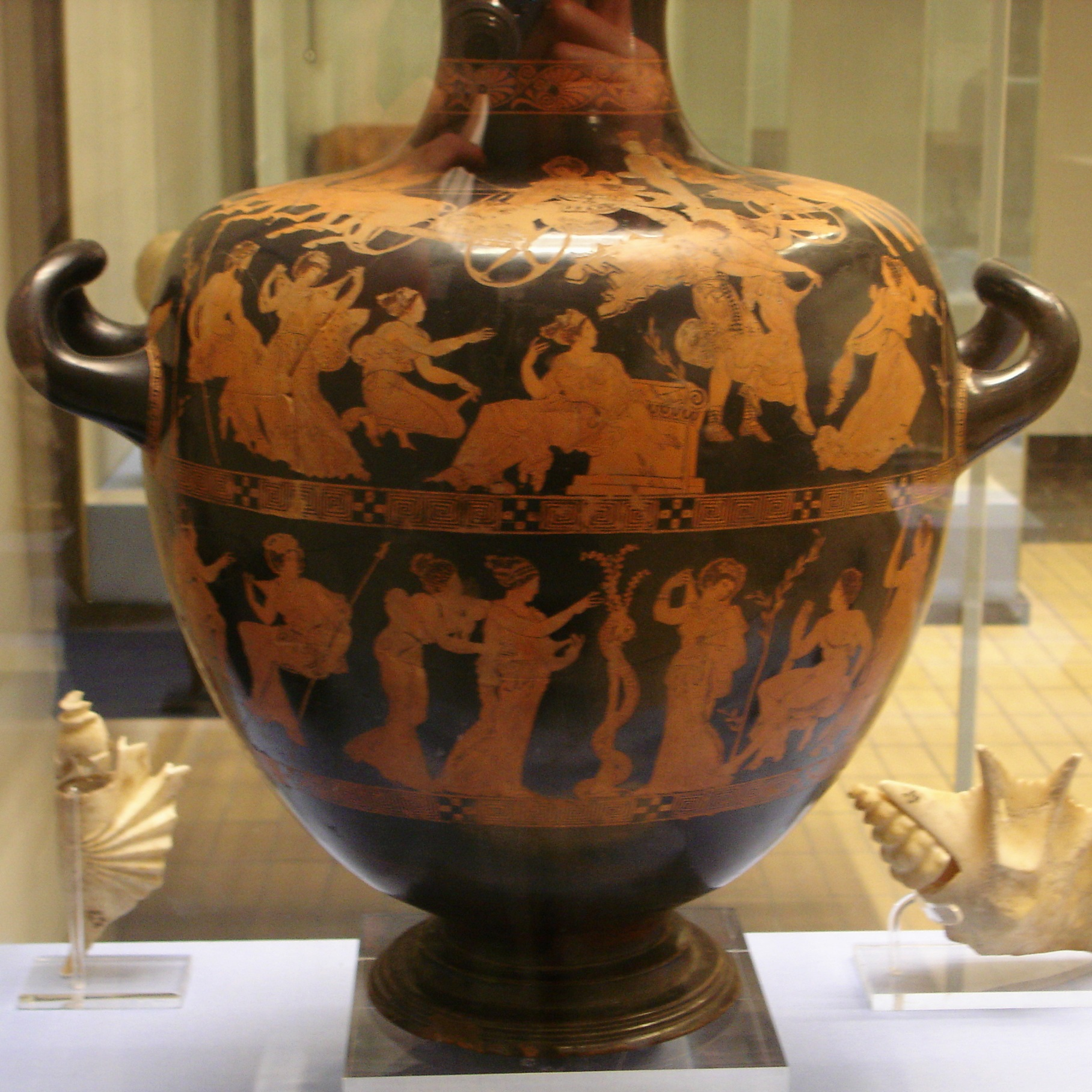 Rape of the Leucippids by the Dioscuri (top); Herakles in the Garden of Hesperids accompagnied by a group of Athenian tribal heroes (bottom). Attic red-figured hydria, ca. 420–400 BC.